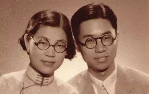 Chinese physicists Lu Shijia and Zhang Wei